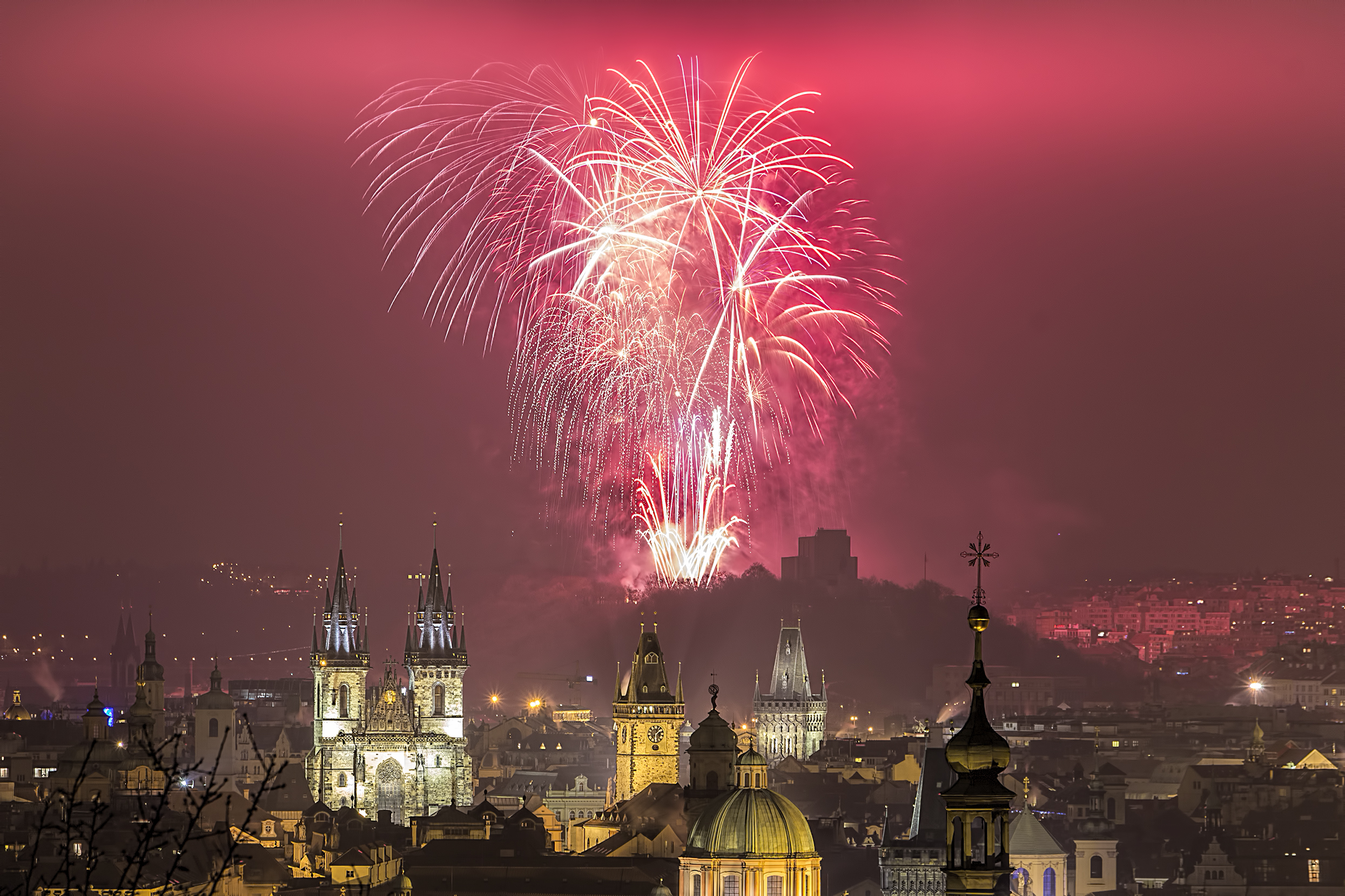 Prague new year 2016 fireworks over Prague Old Town panorama. If you like my work, there are more photos, illustrations and videos in high resolution, which you can download at Pond5. Please look at my portfolio at pond5 here!